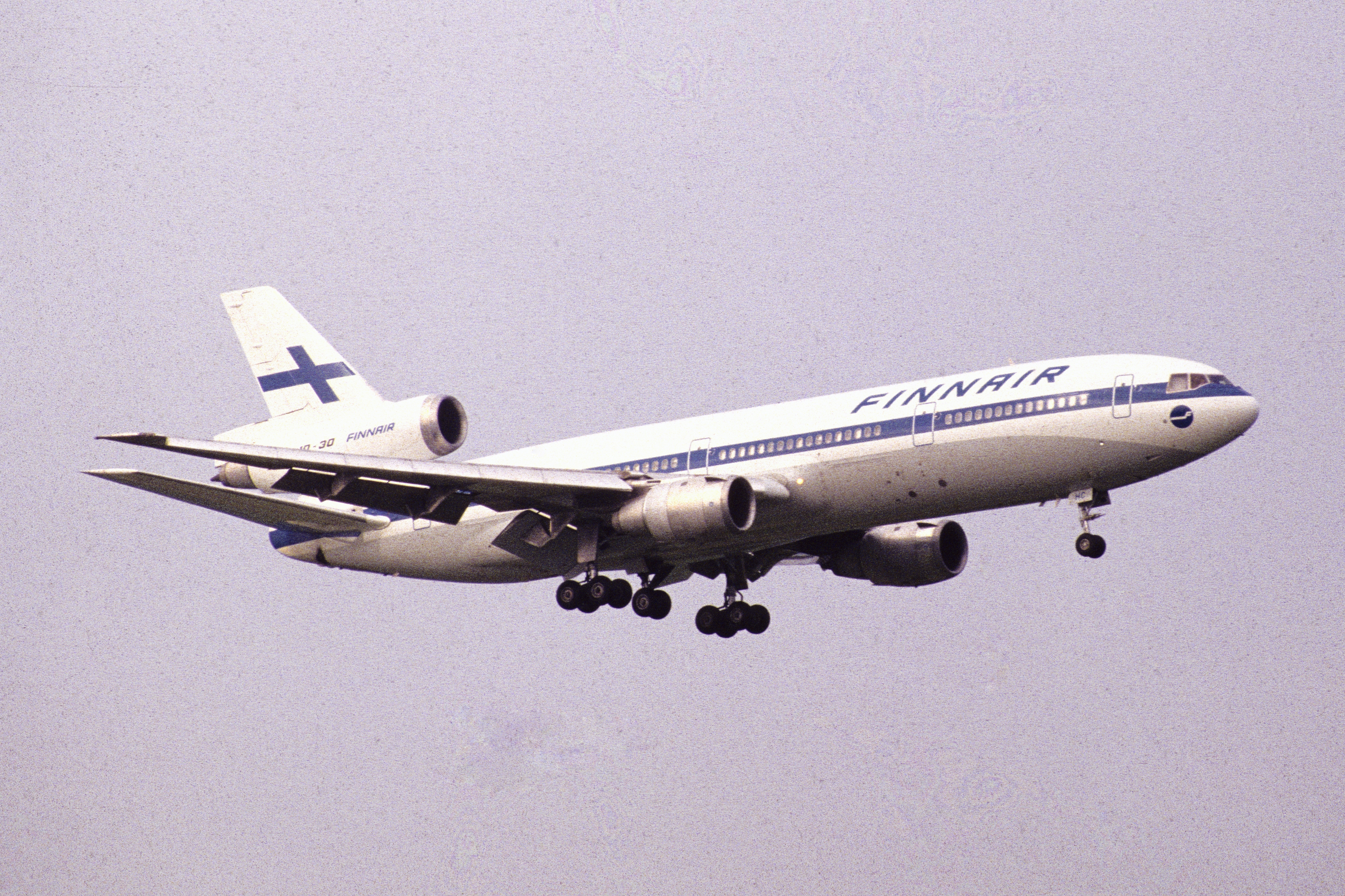 McDonnell Douglas DC-10-30ER aircraft (N345HC) of Finnair